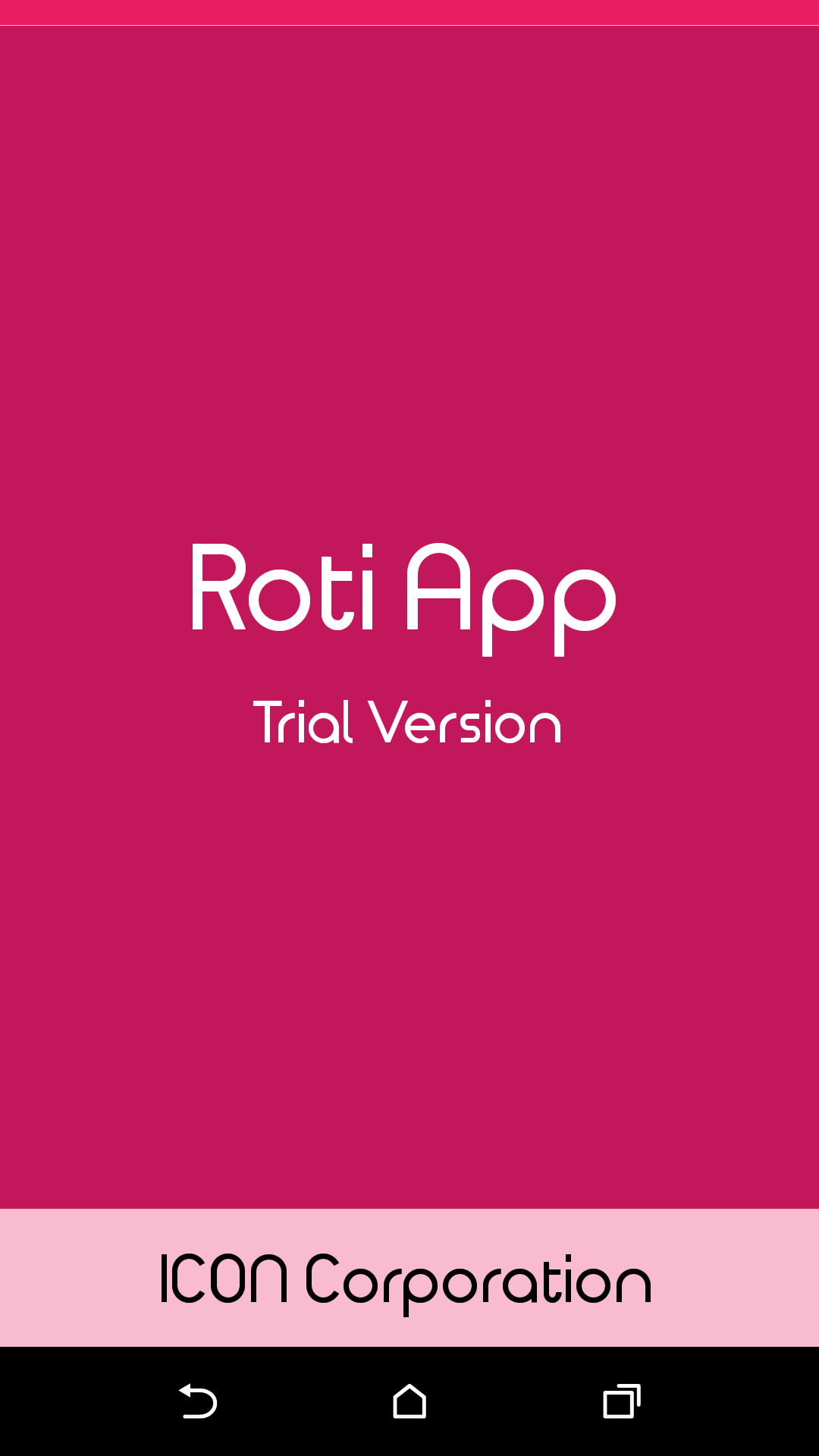 Nellore Roti App Trial ( Android )